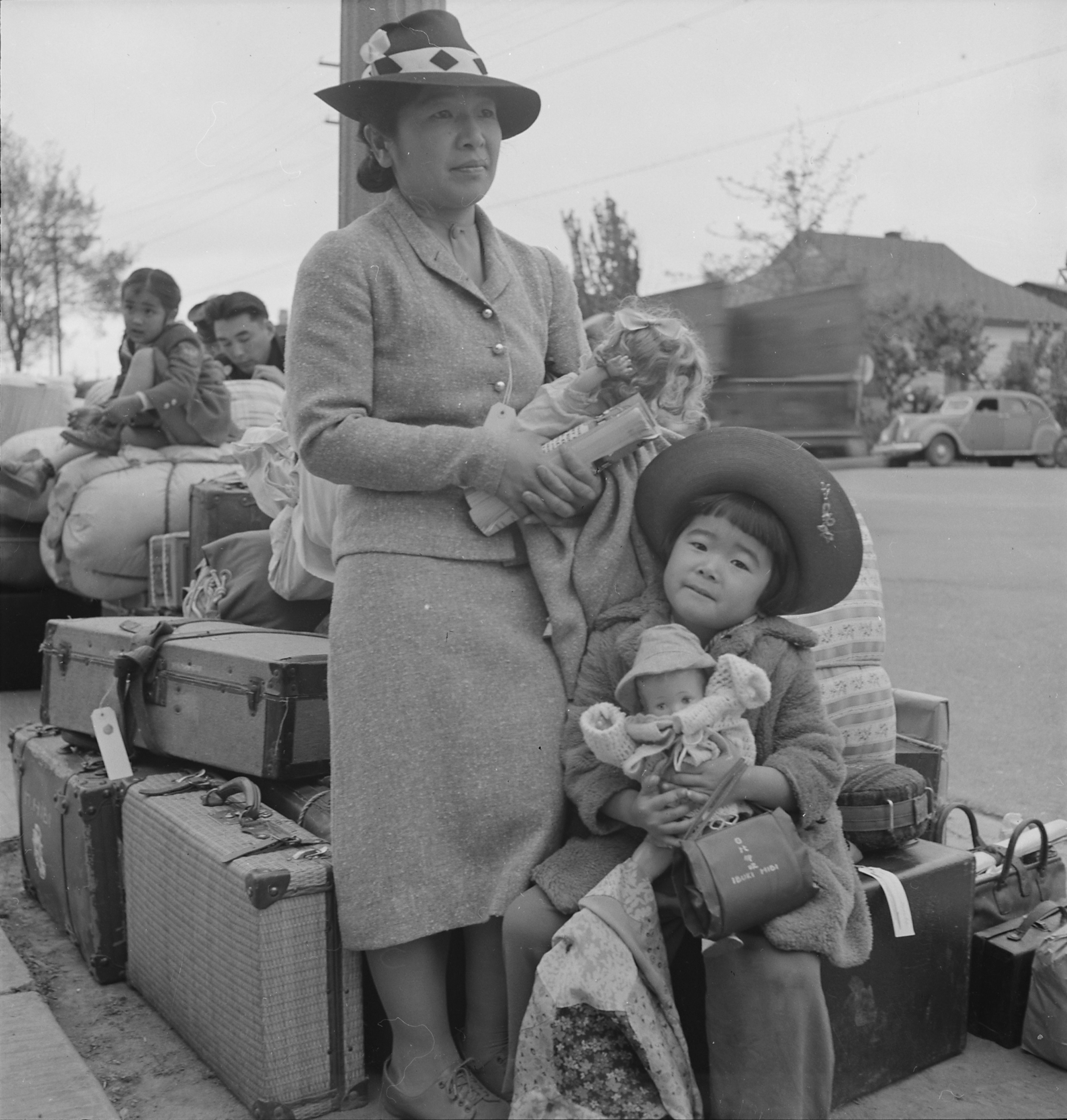 Scope and content: The full caption for this photograph reads: Hayward, California. These people of Japanese ancestry are awaiting the special bus which will take them, and other evacuees, to the Tanforan Assembly center. The father of this small family is attending to their luggage and bed rolls. They will spend the duration at a War Relocation Authority center.